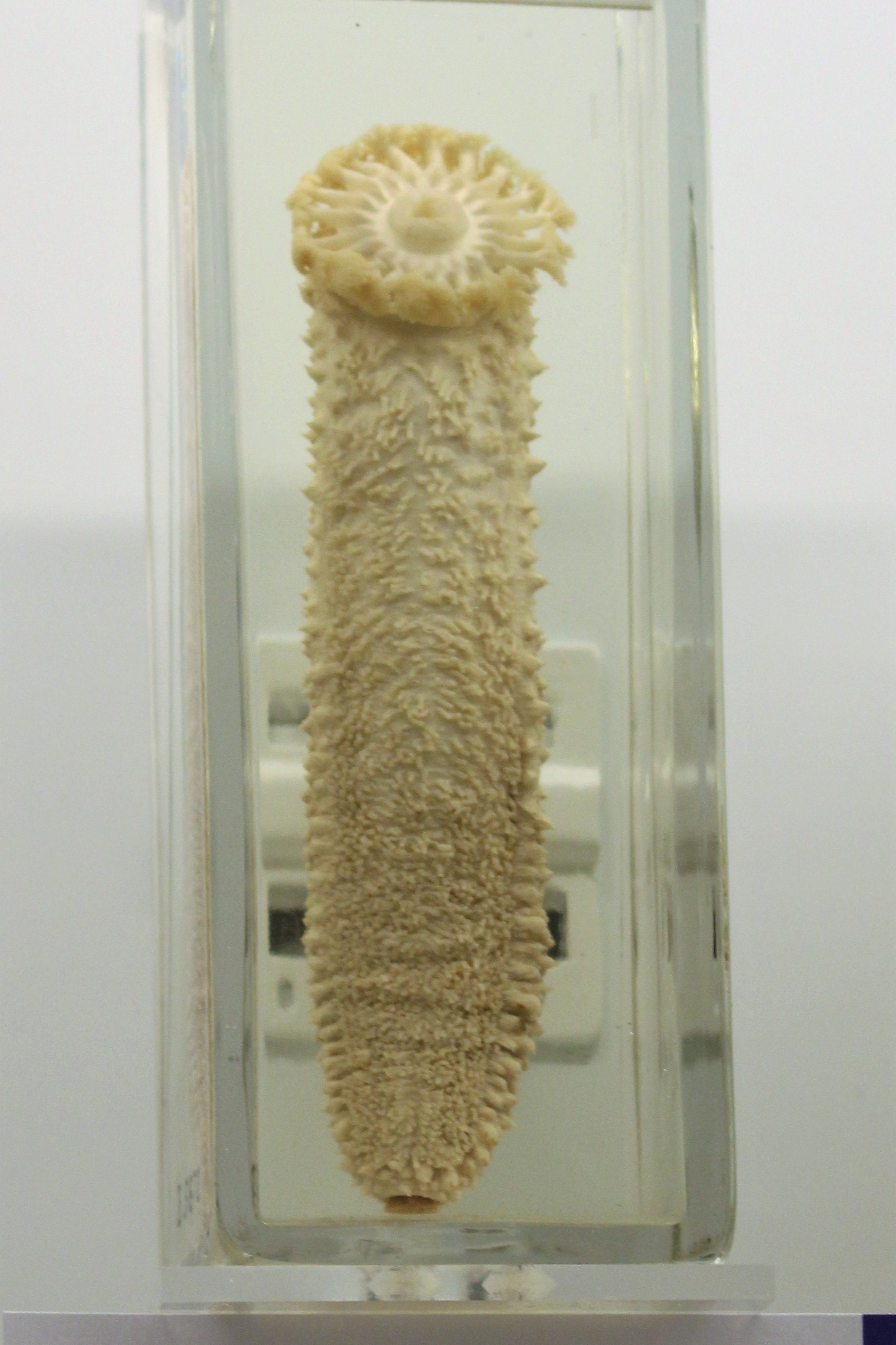 Holothuria sanctori at the Cambridge University Museum of Zoology, England.